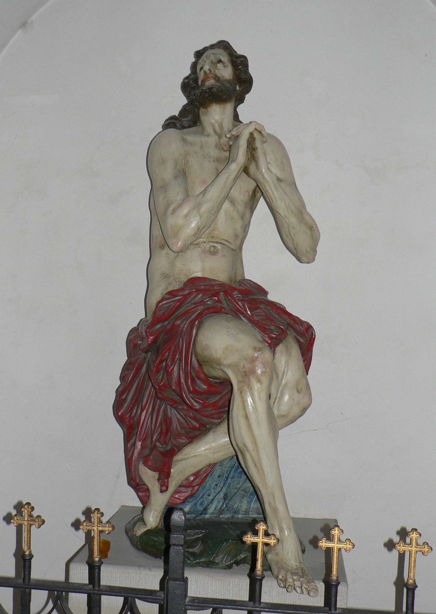 own file